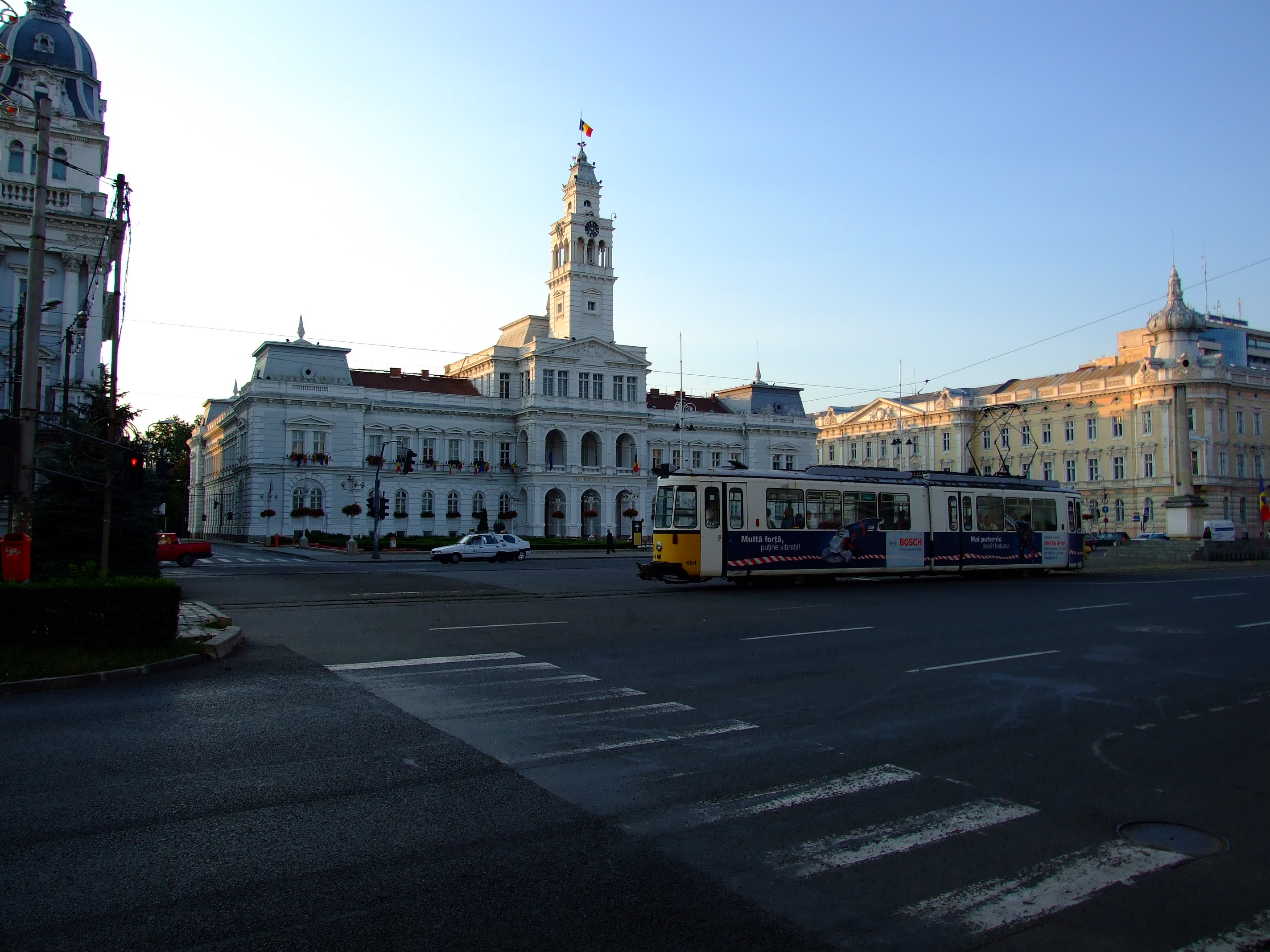 City hall in Arad, county capital in southwestern Romania, Banat region